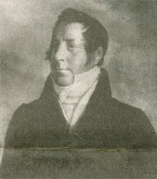 Carl Otto Mörner, painting by Per Krafft the younger.